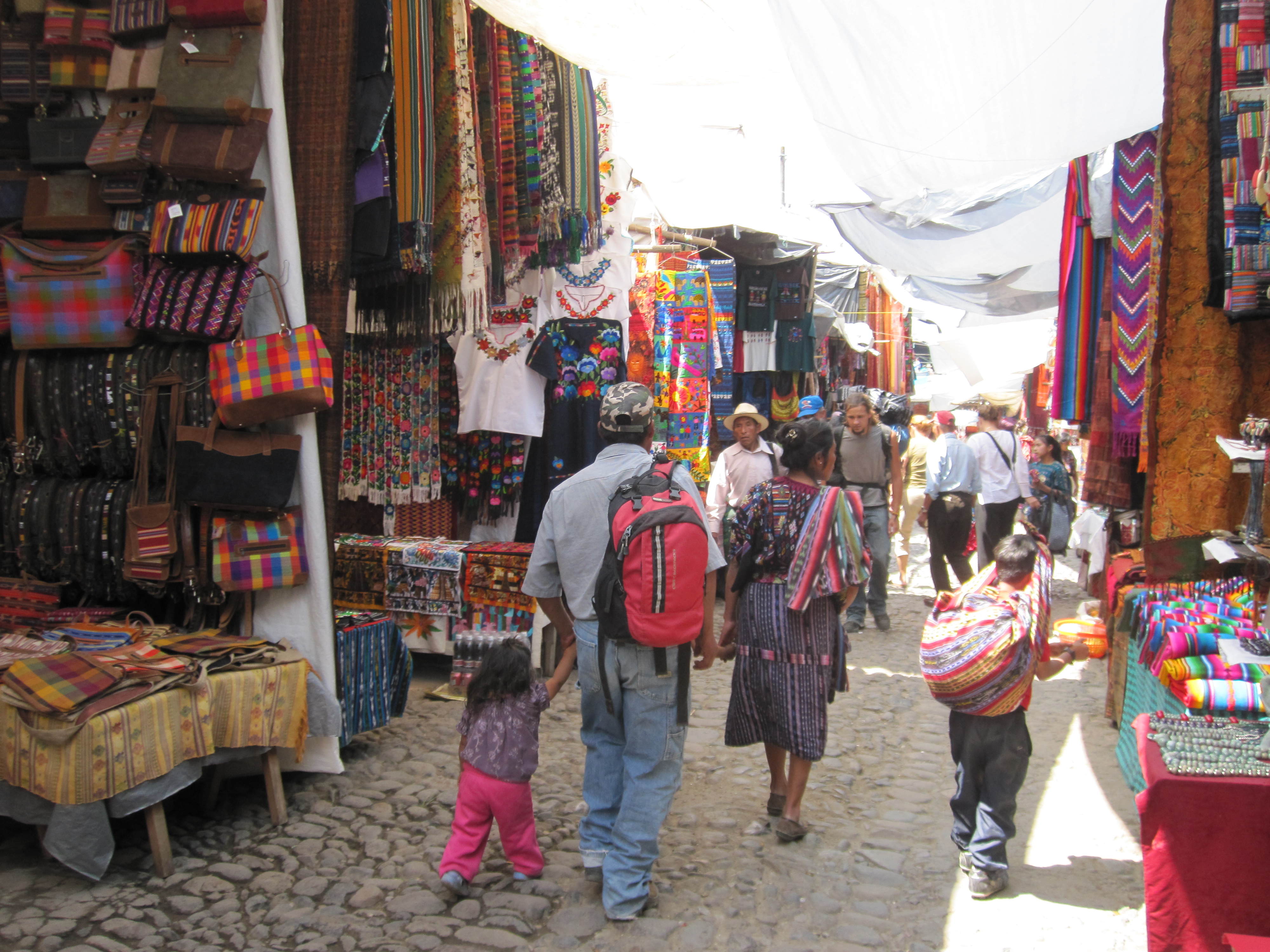 Shoppers, Chichi market, Guatemala